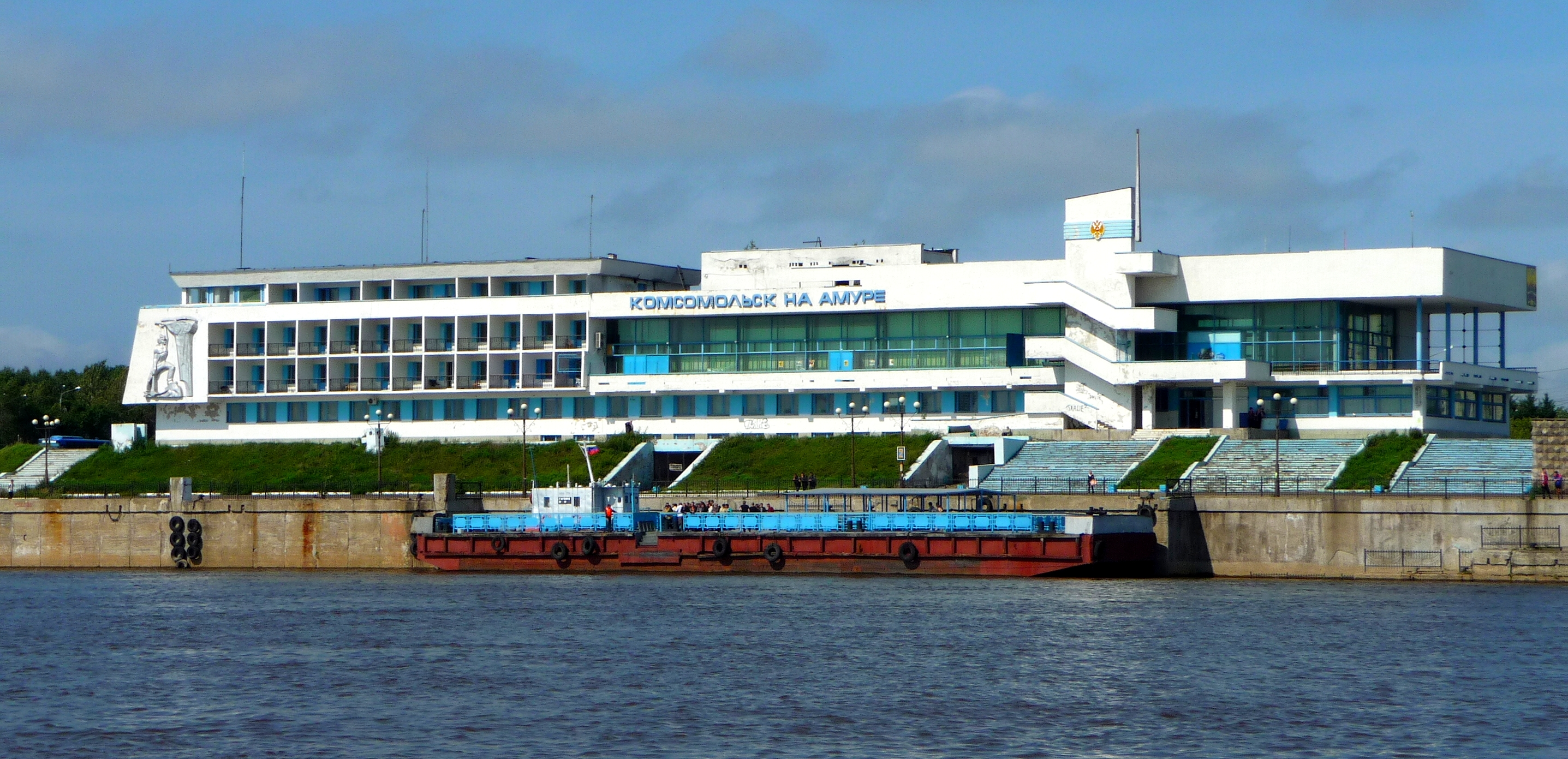 Building of the port in Komsomolsk-on-Amur (Khabarovsk Krai, Russia).